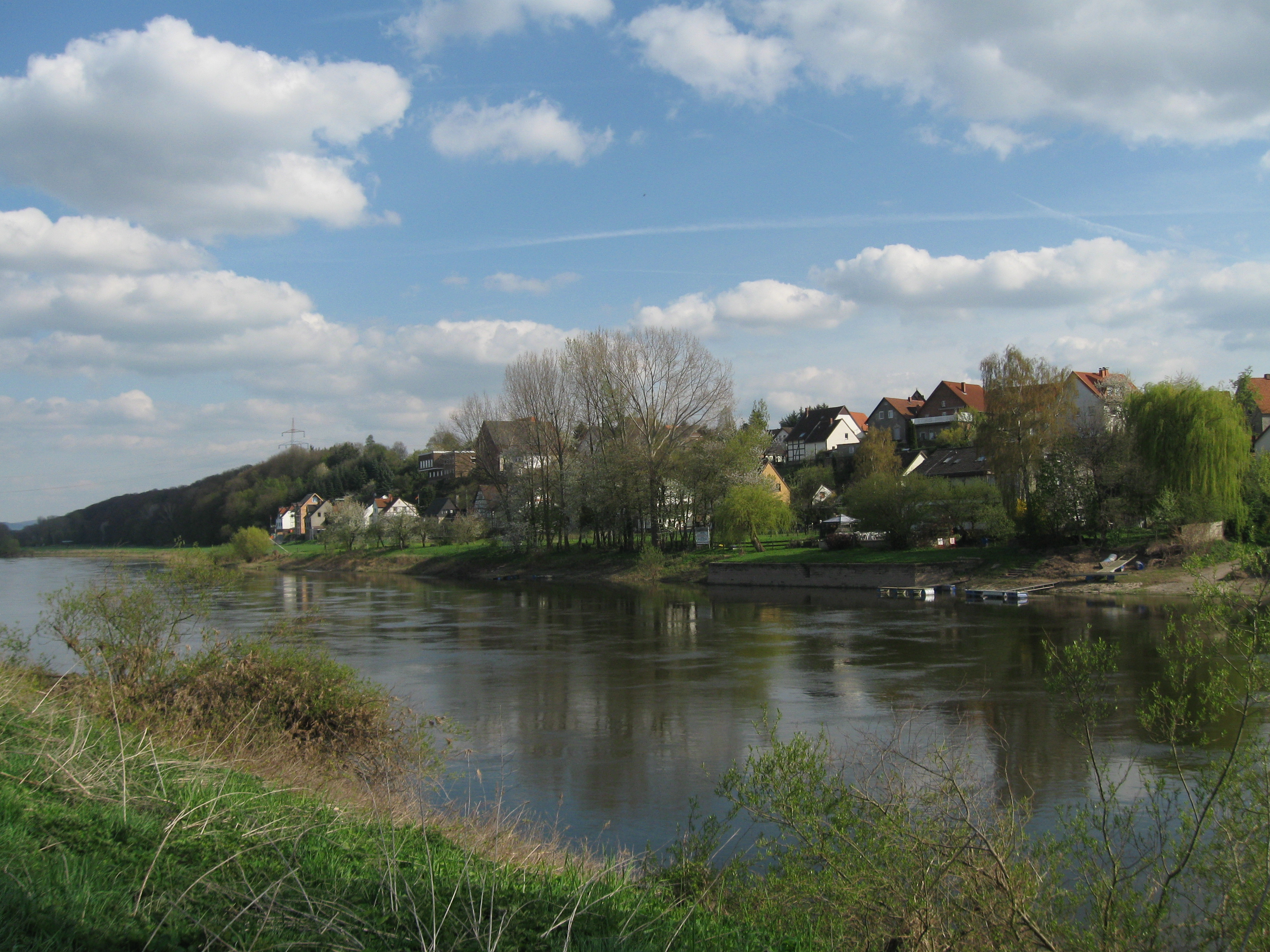 Weser lot in Erder (Kalletal) with the shareholders of ferries at the left side of the Weser-River